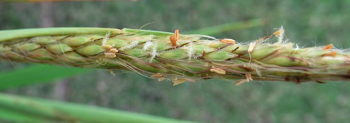 Hilo ischaemum Poaceae (Gramineae) Endemic to the Hawaiian Islands Endangered Oʻahu (Cultivated) Flowering.